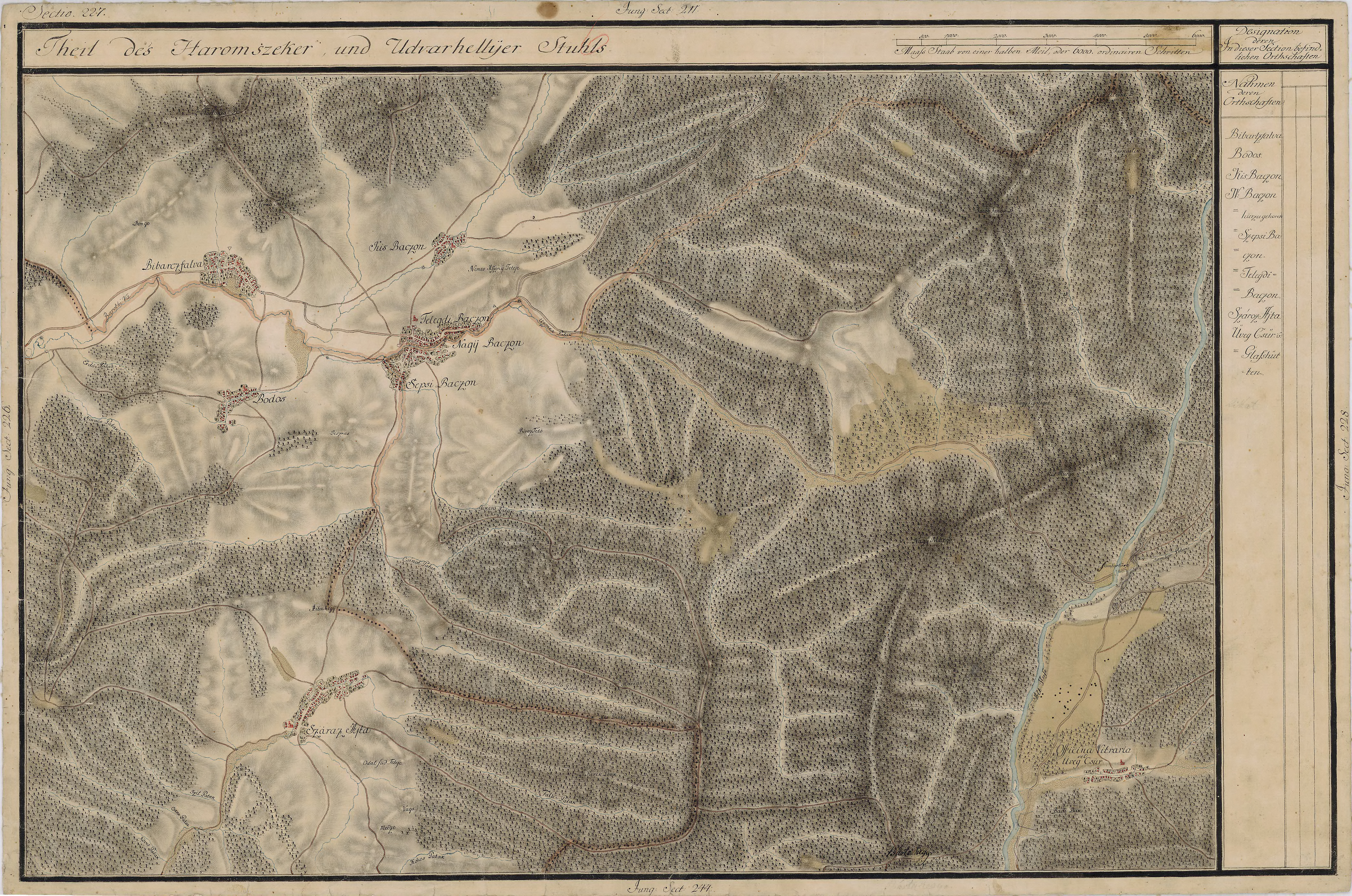 Grand Duchy of Transylvania, 1769-1773. Josephinische Landaufnahme pg.227